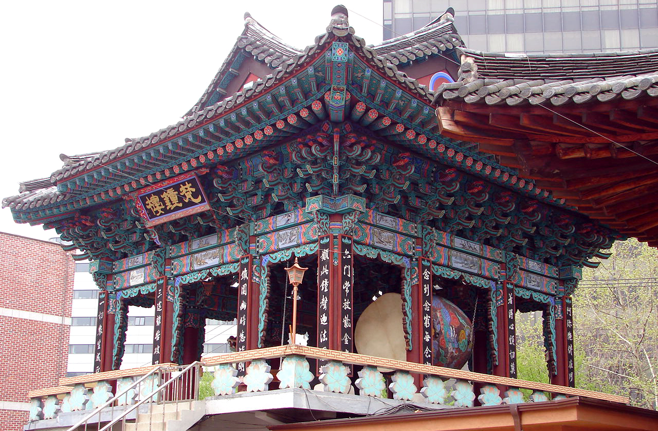 Jogyesa Bell Pavilion. Jogyesa is the headquarters of the Jogye Order of Korean Buddhism playing the defining role of Seon Buddhism in South Korea. The temple was first established in 1395, at the dawn of the Joseon Dynasty. Natural monument 9, an ancient white pine tree, is located within the temple grounds.